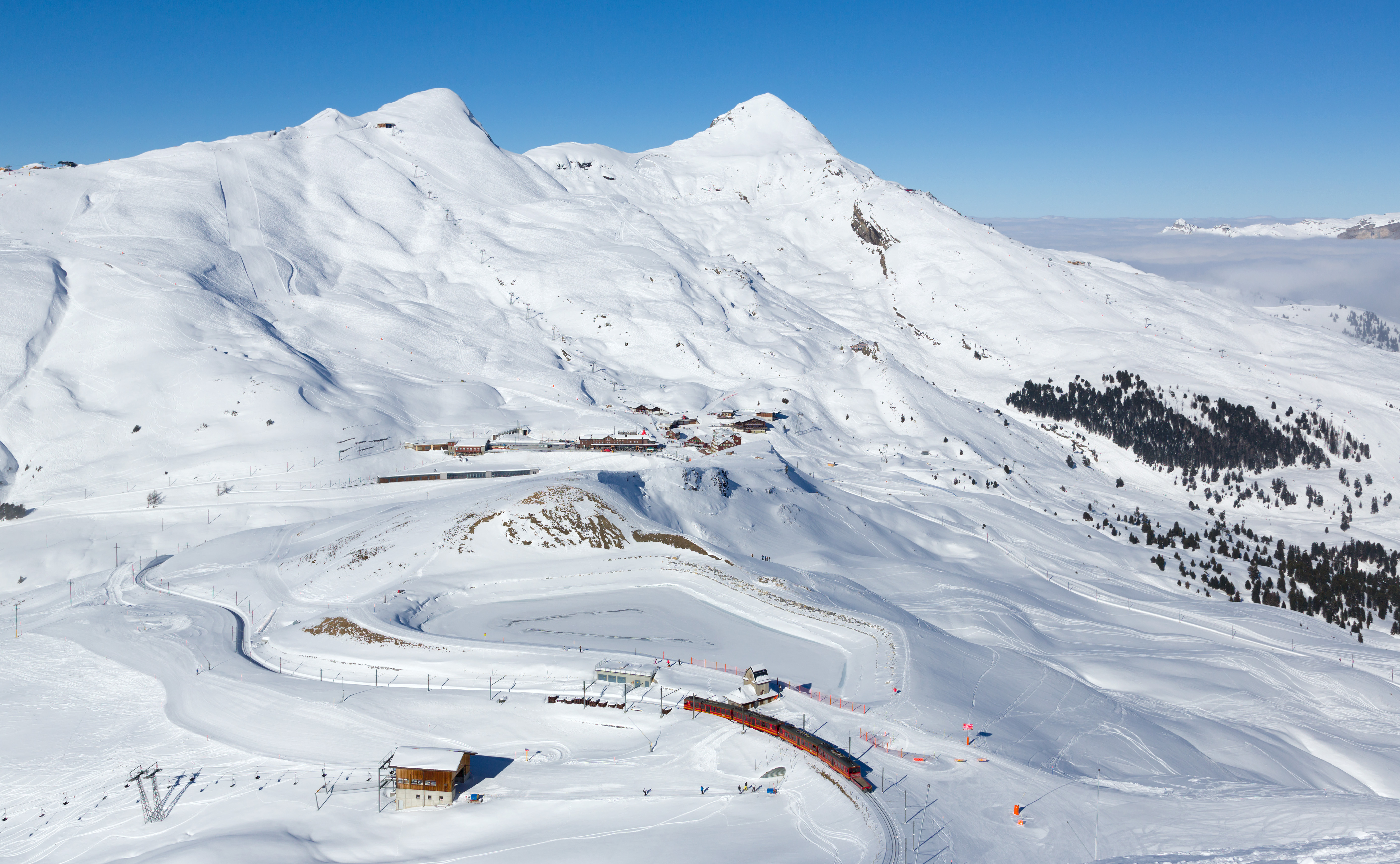 Jungfraubahn BDhe 4/8 between Kleine Scheidegg (center) and Eigergletscher (not on picture); Swiss mountains of Lauberhorn (2472 m; left) and Tschuggen (2521 m; right) above Kleine Scheidegg.